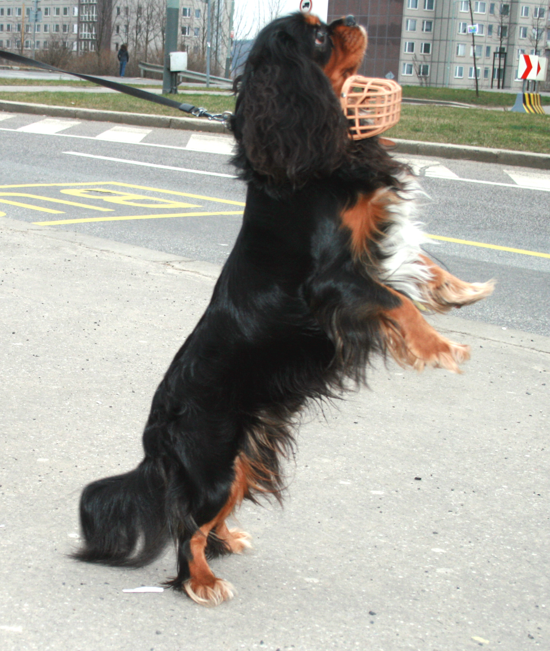 Dog Cavalier King Charles Spaniel Mike from Prague